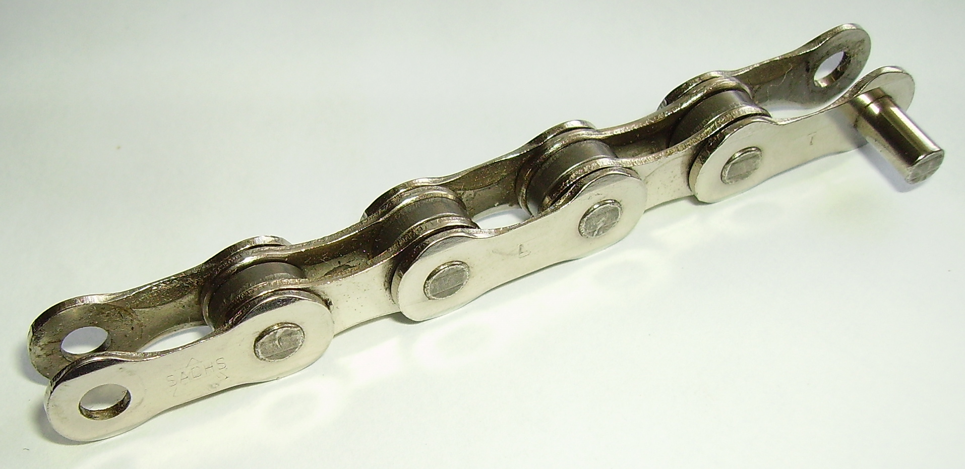 Sachs-Sedis SC-30 compact chain: 1/2" x 3/32" (detail: five links with a connecting pin), compatible for all index systems. Standard riveting, chamfered plate, silver colour.